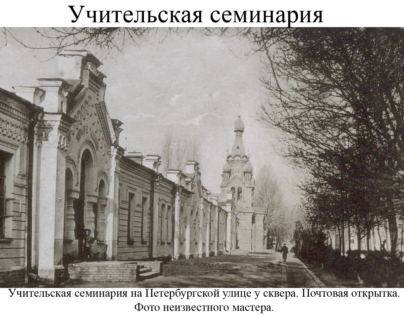 Teachers' seminary at St. Petersburg street from the park. Postcard. Photo unknown master.